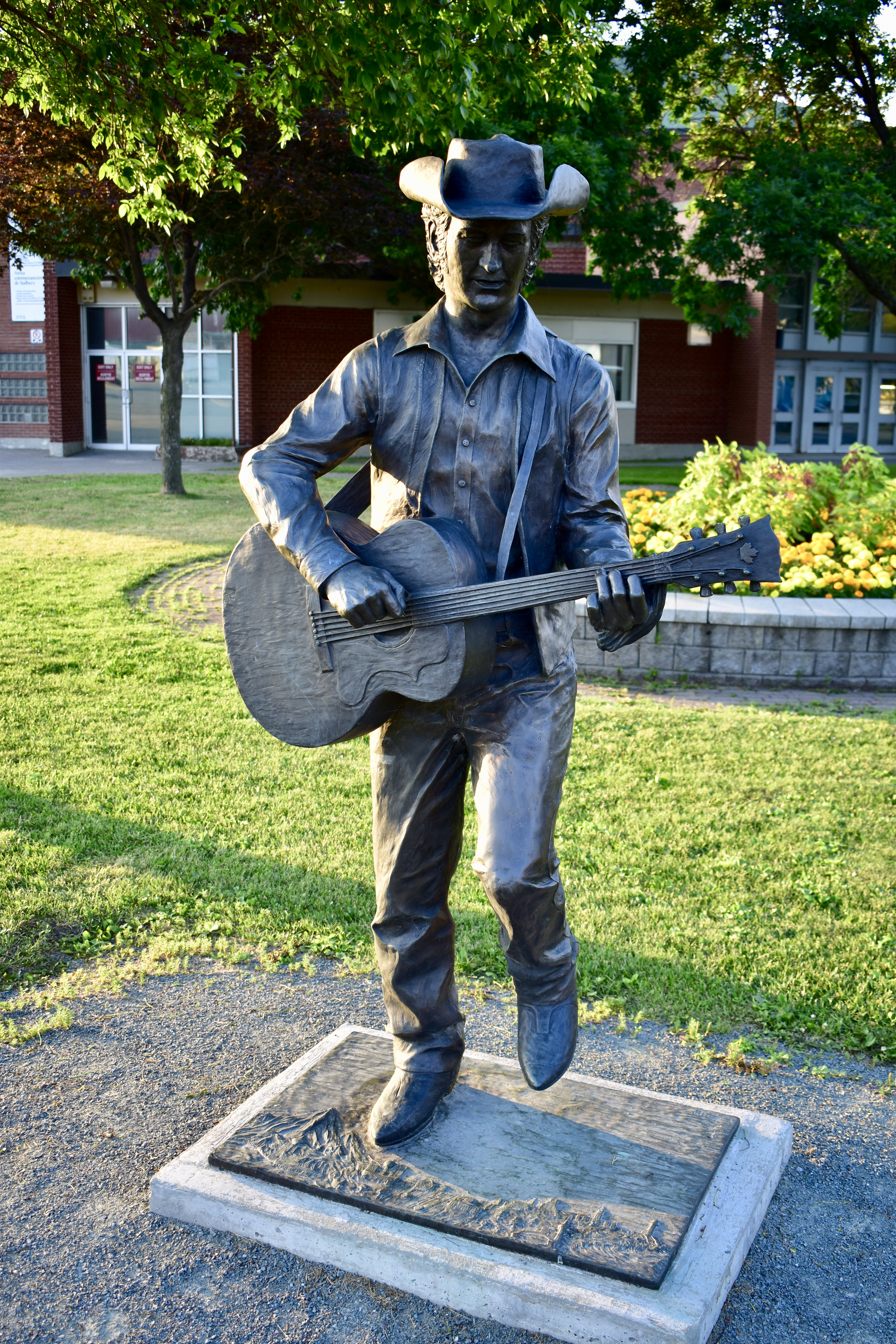 fullsizeoutput_3202